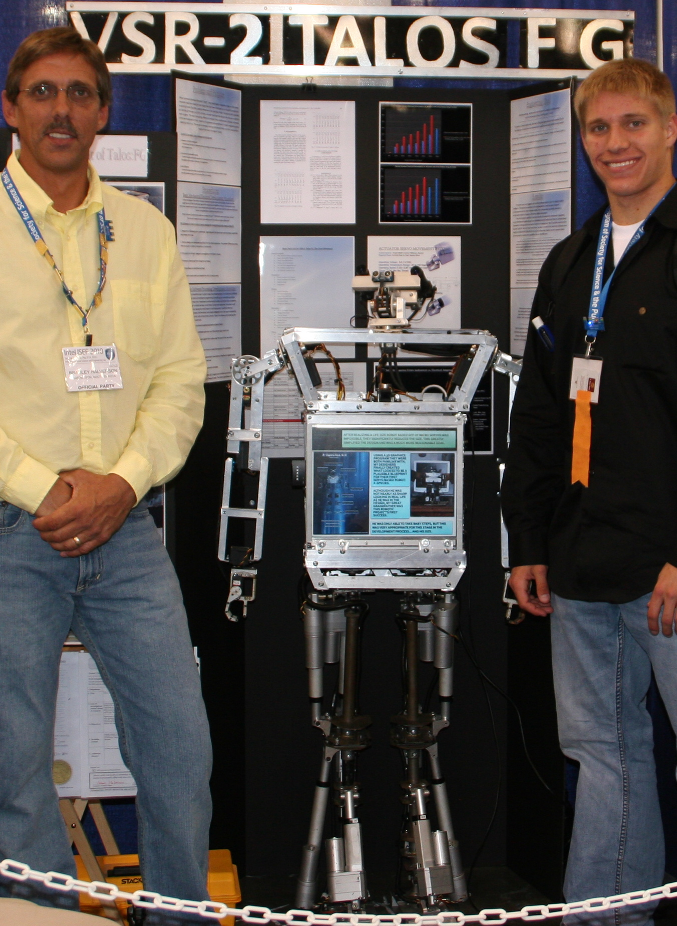 VSR-2: Talos FG on display at Intel ISEF 2010 with its creator, Adam Halverson (right), and co-funder, Brad Halverson (left)